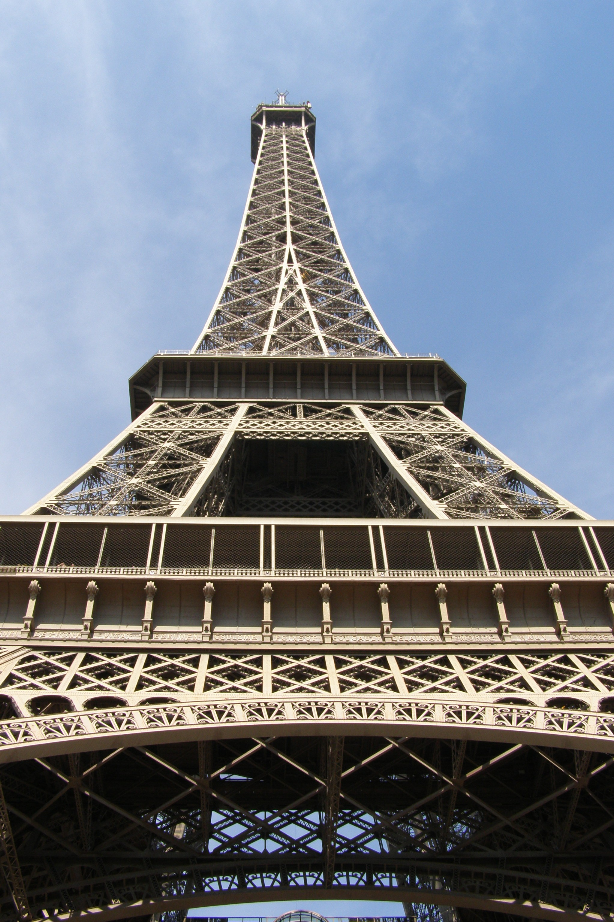 Looking up at the Eiffel Tower